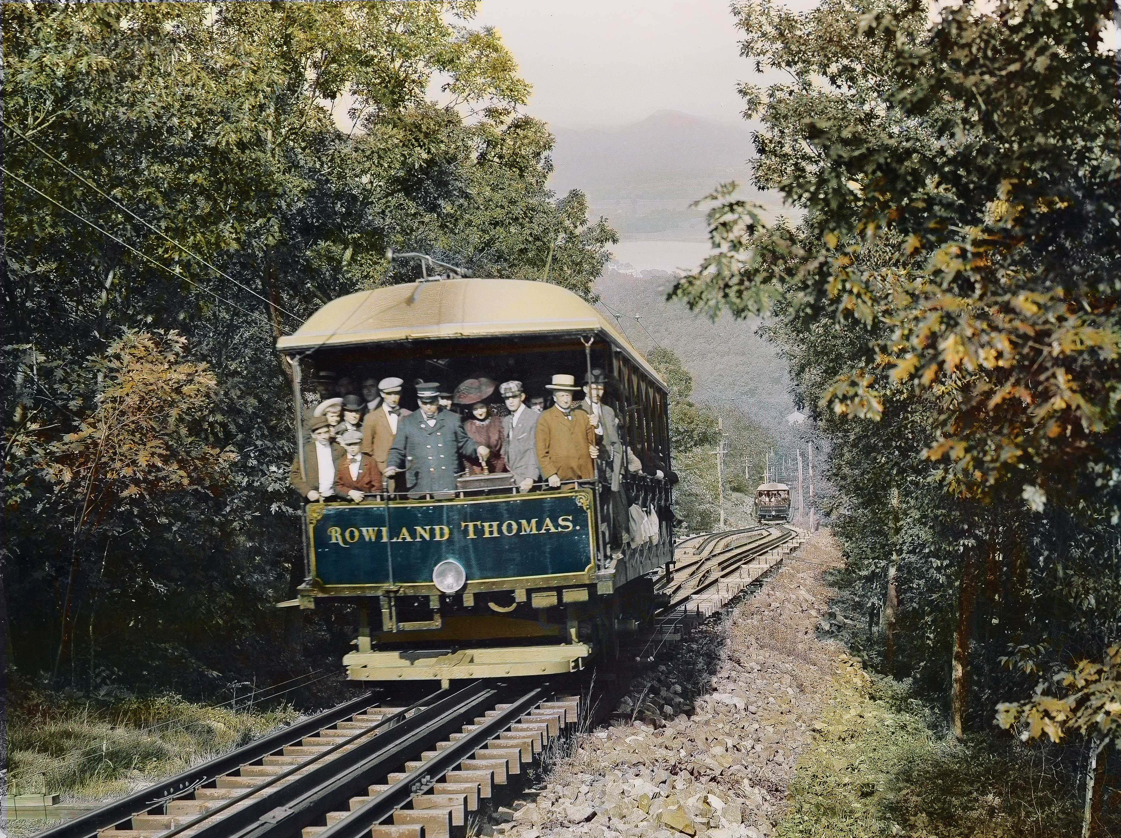 A view of the Mount Tom Railroad funicular system, showing the Rowland Thomas in the foreground ascending Mount Tom, whilst the Elizur Holyoke descends, operated by the Holyoke Street Railway